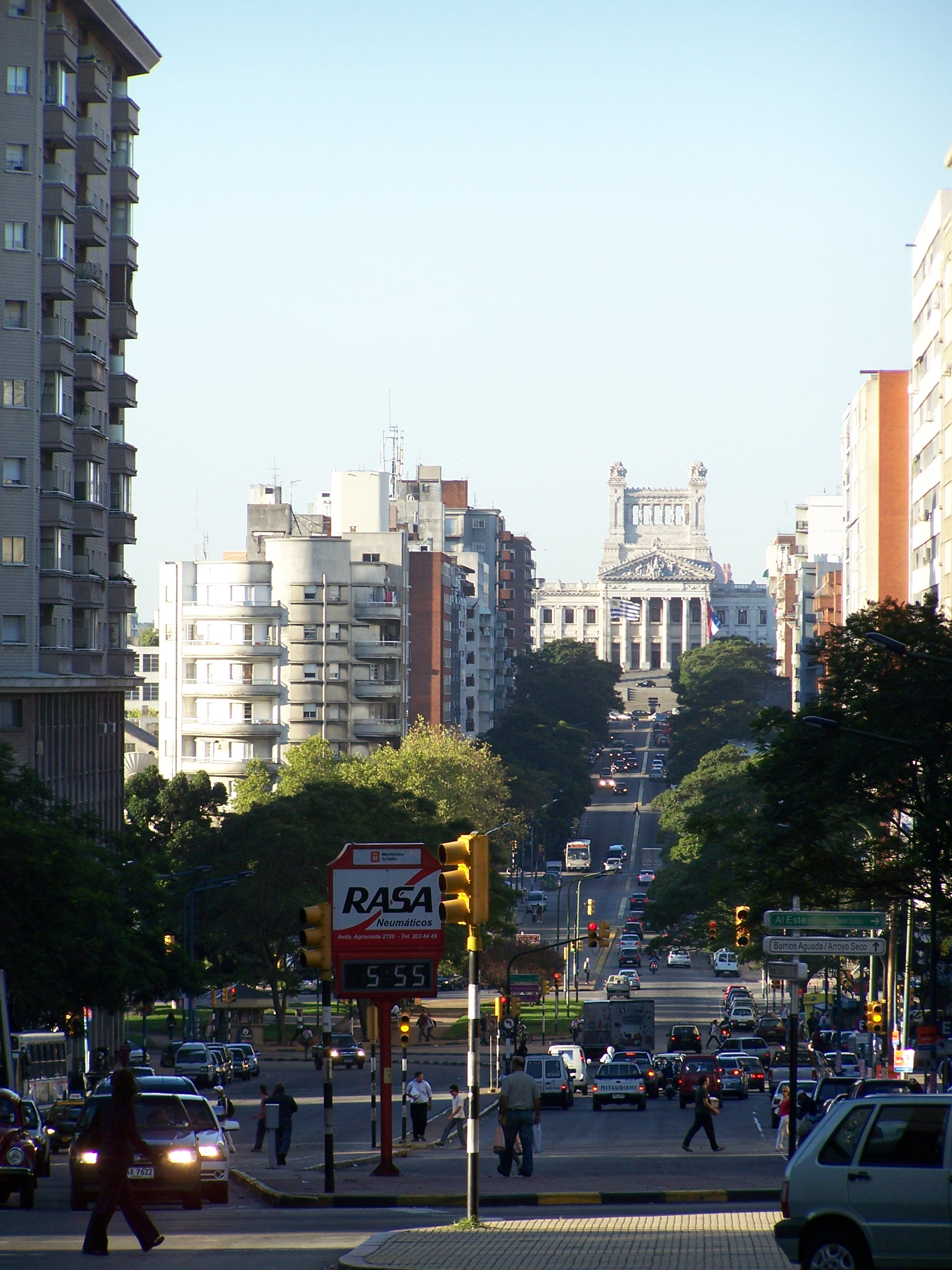 Avenida del Libertador and the National Assembly building, Montevideo, Uruguay. View of barrio Aguada seen from Centro.